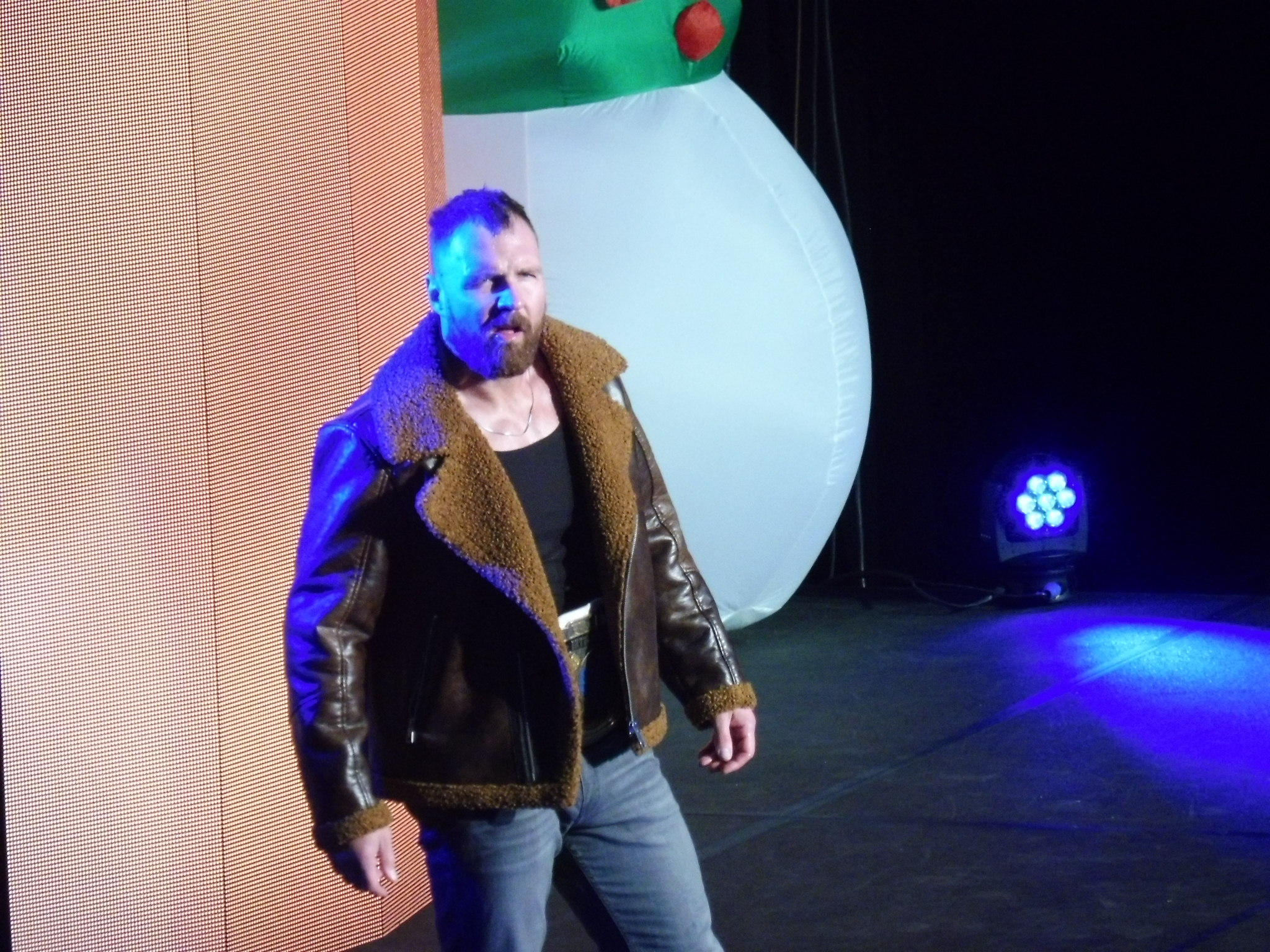 Professional wrestler Dean Ambrose making his entrance in December 2018